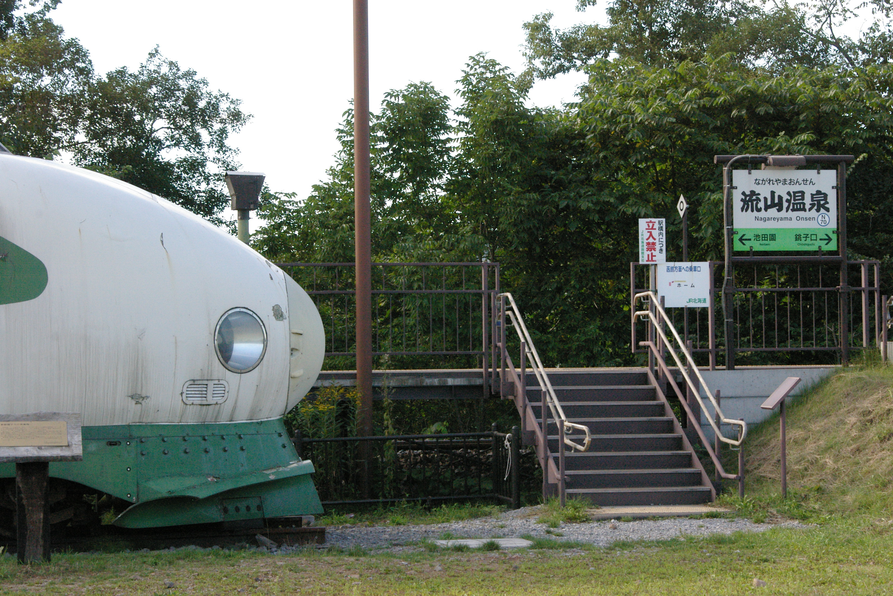 Uploaded by Shayuki in September 11,2008